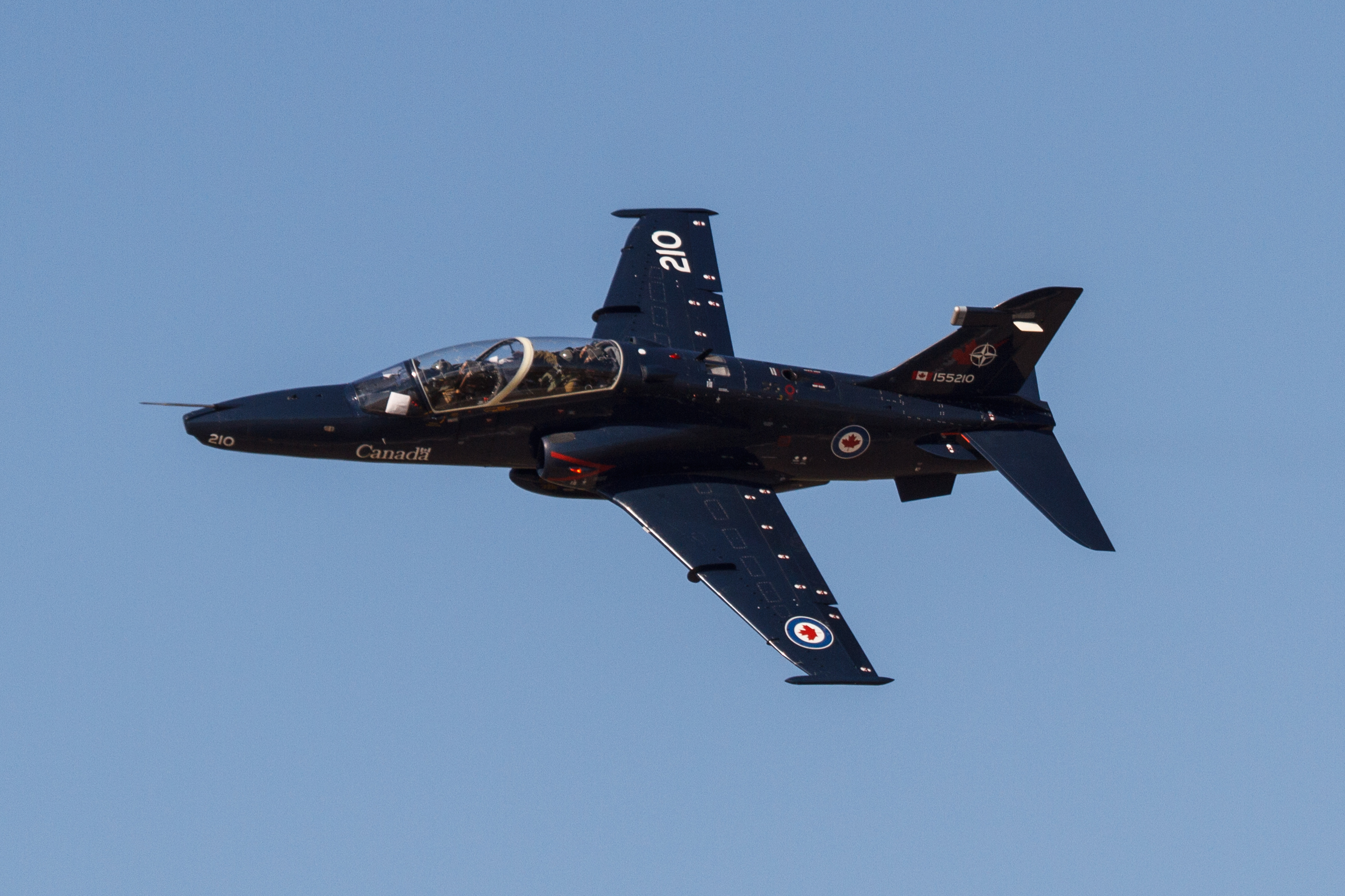 A Canadian CT-155 Hawk performing a flyby at the Alliance Air Show 2014 in Fort Worth, Texas.